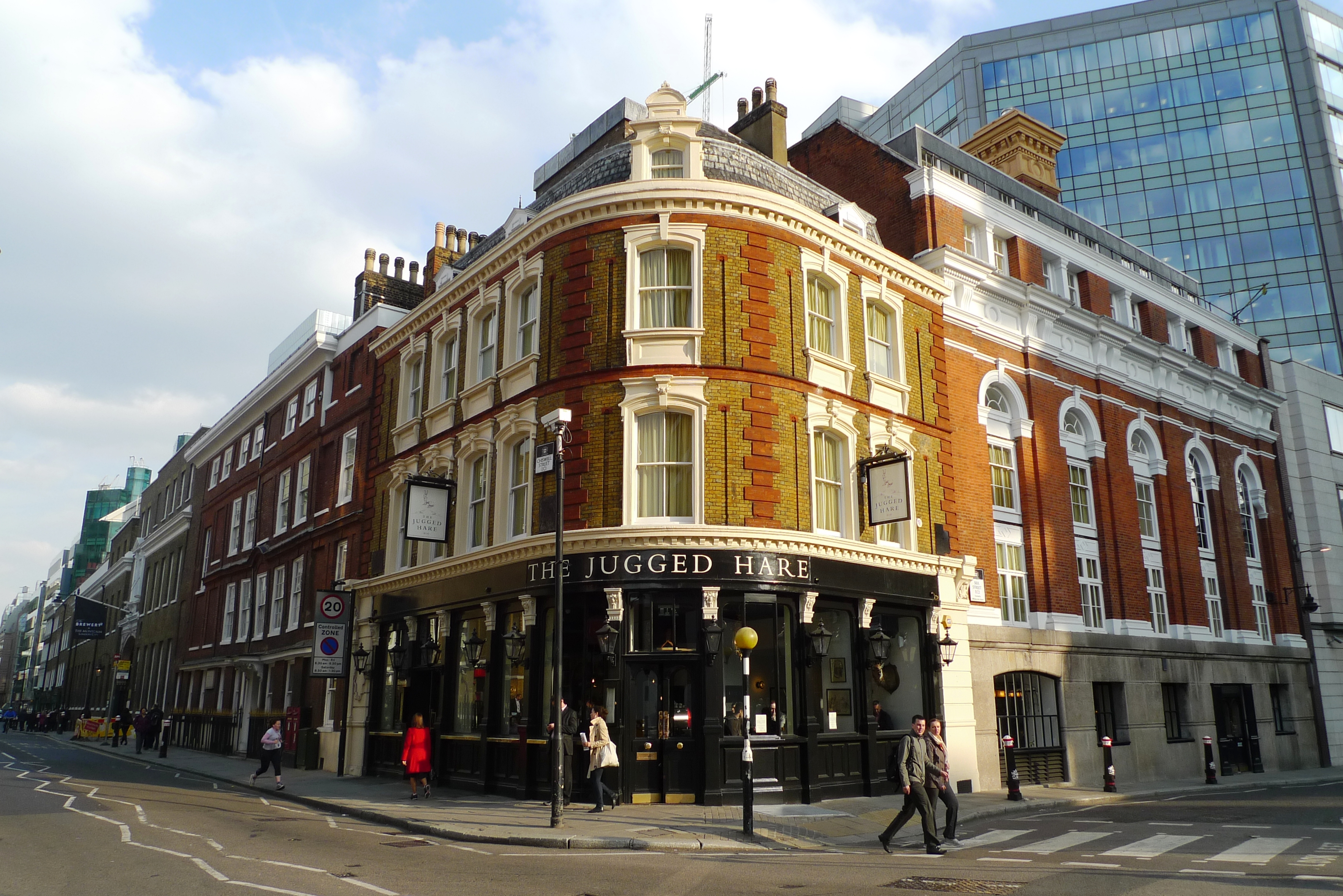 Reopened as a far more upmarket pub than it was previously. Taxidermied animal heads inside, but also some nice beers. There's an extensive dining area down the steps in the adjoining building on the right, with the pub bit restricted to the painted frontage. (Photo of bar menu, Apr 2012.) (View of bar interior.) (Photo of it when it was open and later, closed.) Address: 49 Chiswell Street (formerly at Lower Whitecross Street). Former Name(s): The King's Head; The Brewery Tap. Owner: ETM Group (website); Greene King (former); Whitbread (former). Links: London Pubology